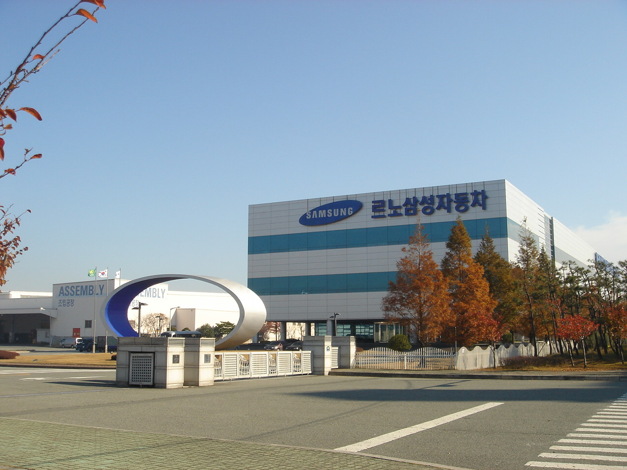 Renault-Samsung Busan factory, photographed in South Korea.